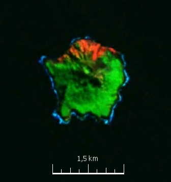 satellite image of Mehetia island, easternmost of Society Islands, French Polynesia